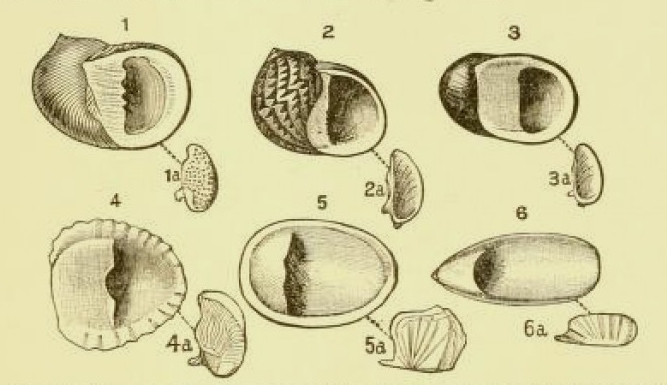 Drawings of Neritidae shells: 1. Nerita; 2, 3. Neritina; 4. Neritina, intermediate form; 5, 6. Septaria (= Navicella).